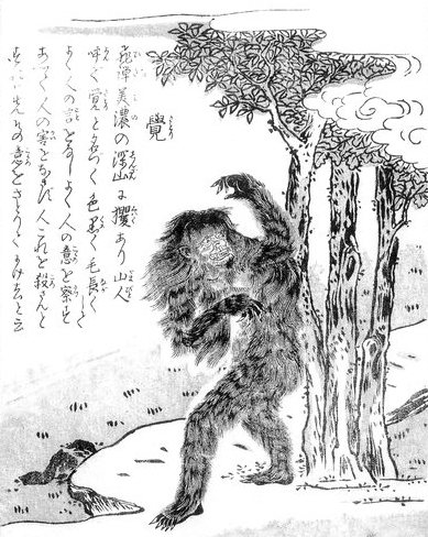 Satori (覚, an ape-like creature that can read minds) from the Konjaku Gazu Zoku Hyakki (今昔画図続百鬼)